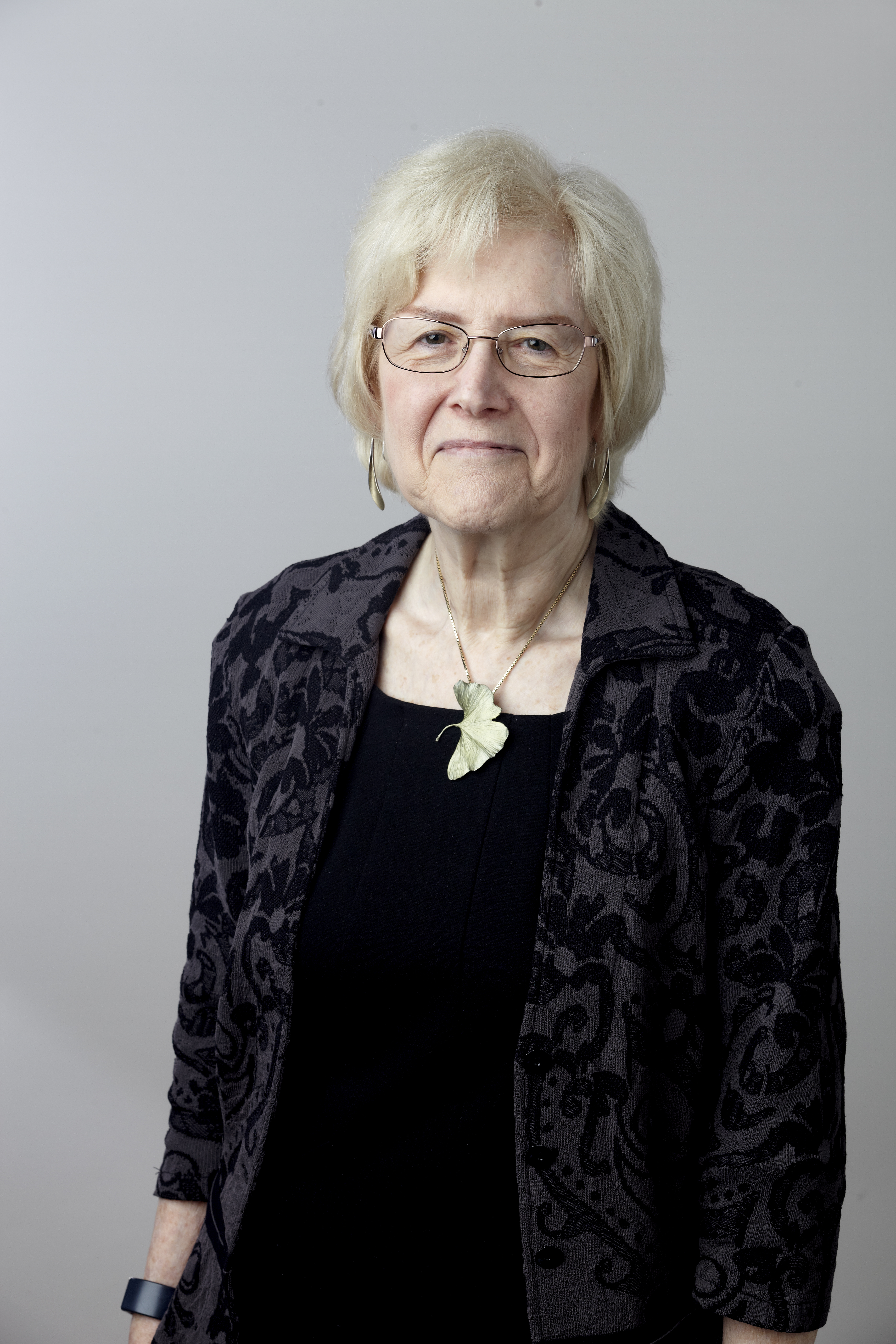 Dr Karalyn Patterson FBA FMedSci FRS, Royal Society Fellow elected 2014 Attribution: The Royal Society